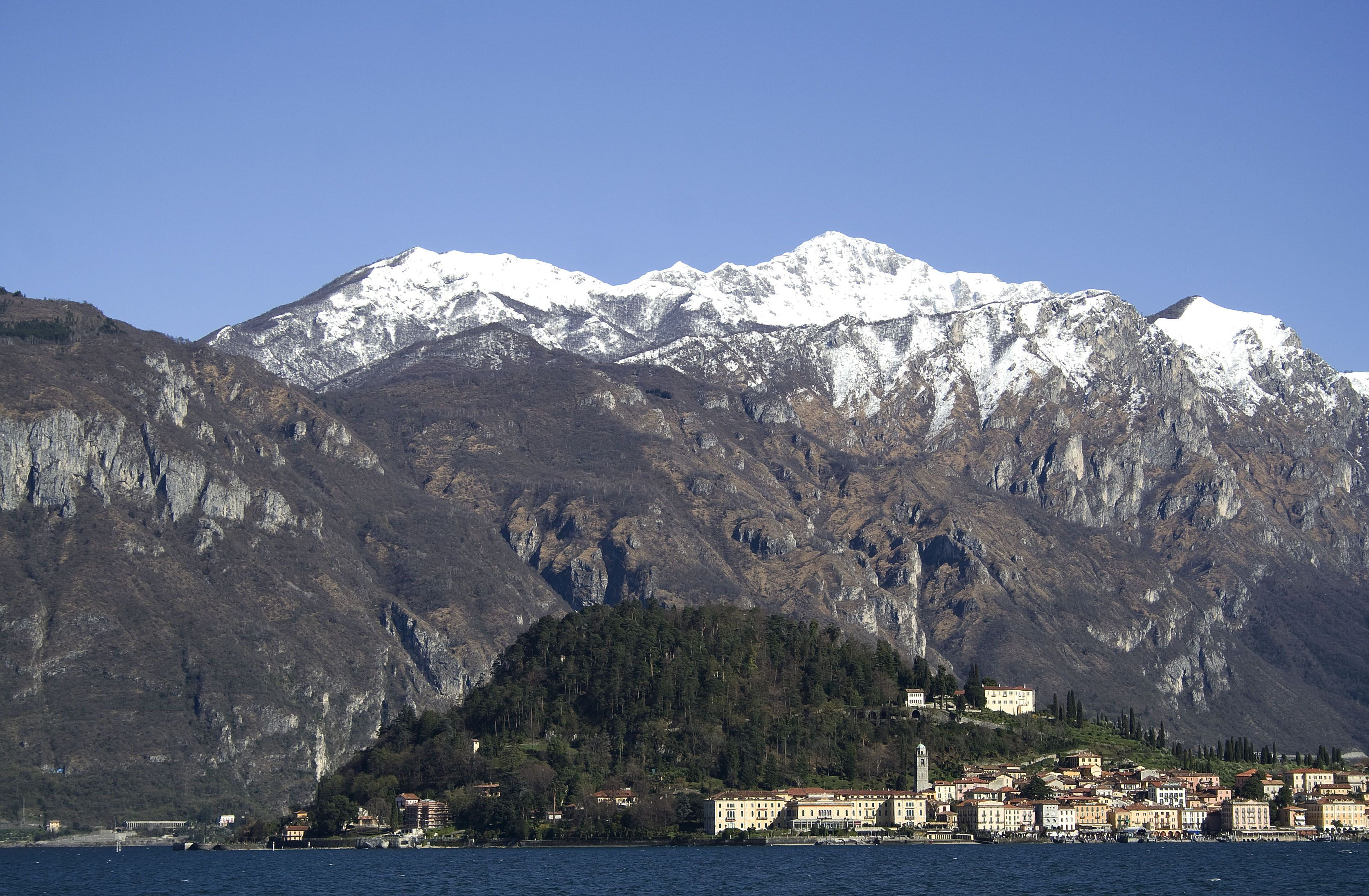 Bellagio, Lake Como, Italy